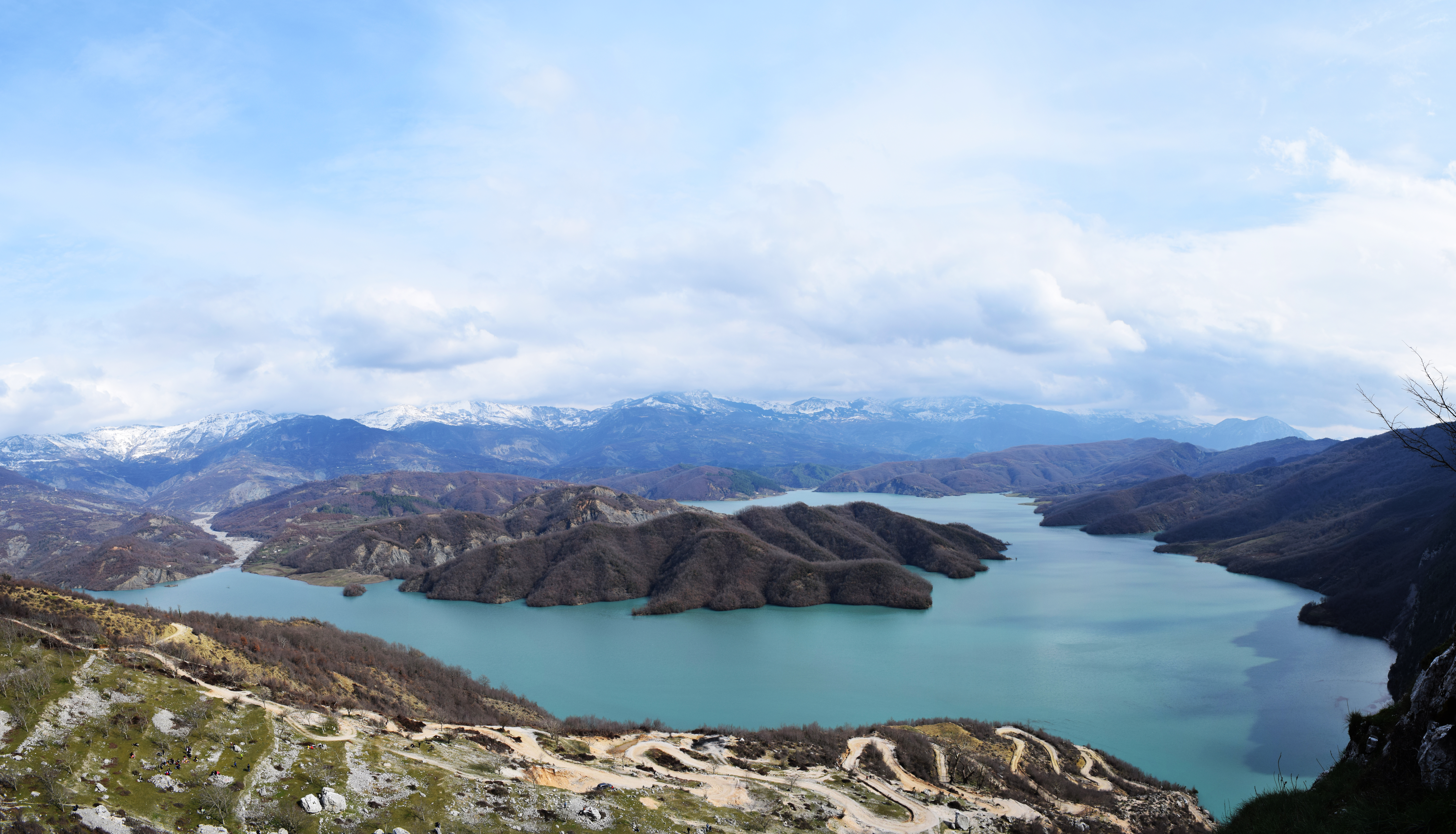 Panoramic view of Lake Bovilla, Tirana, Albania